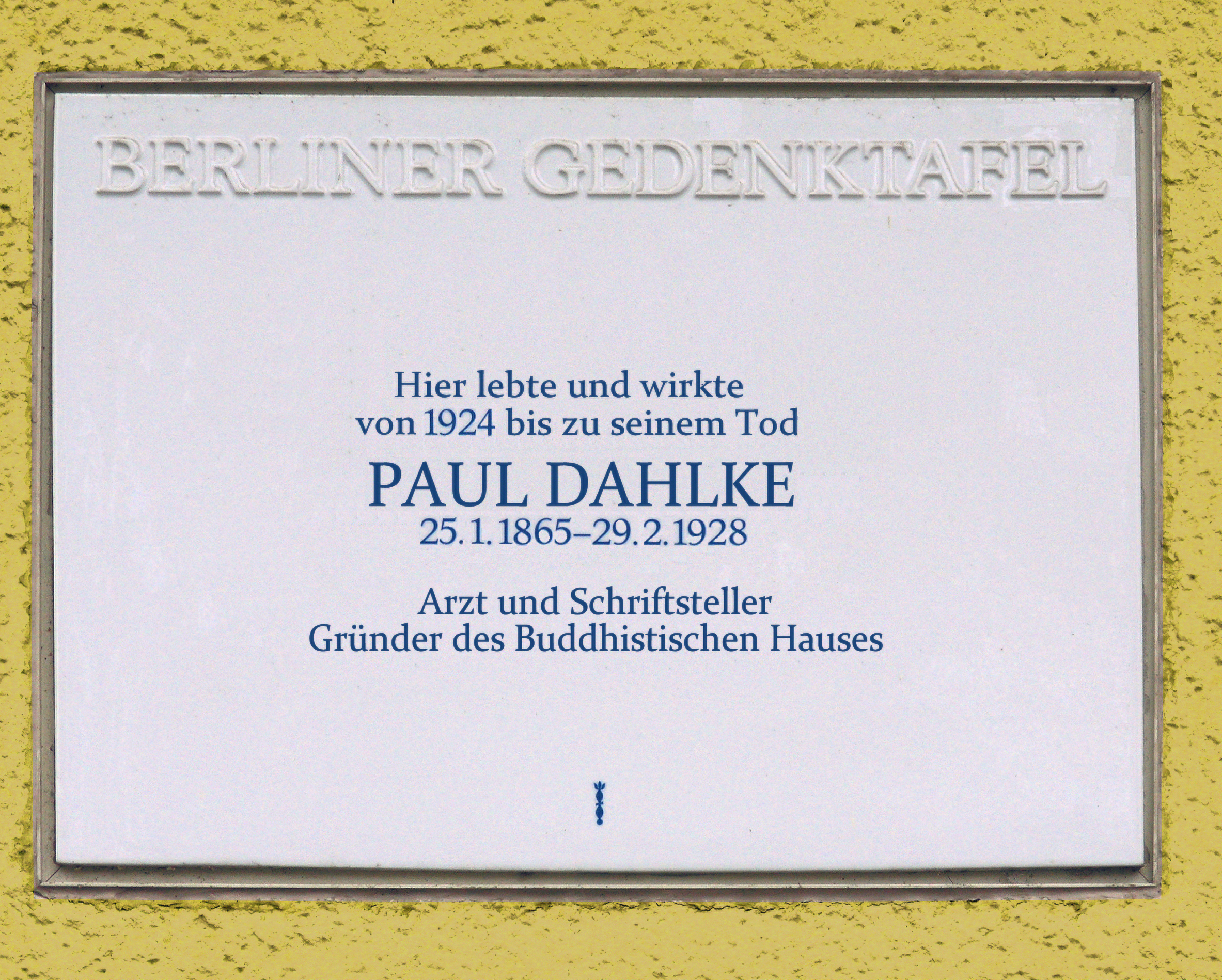 Berlin memorial plaque, Paul Dahlke, Edelhofdamm 54, Berlin-Frohnau, Germany